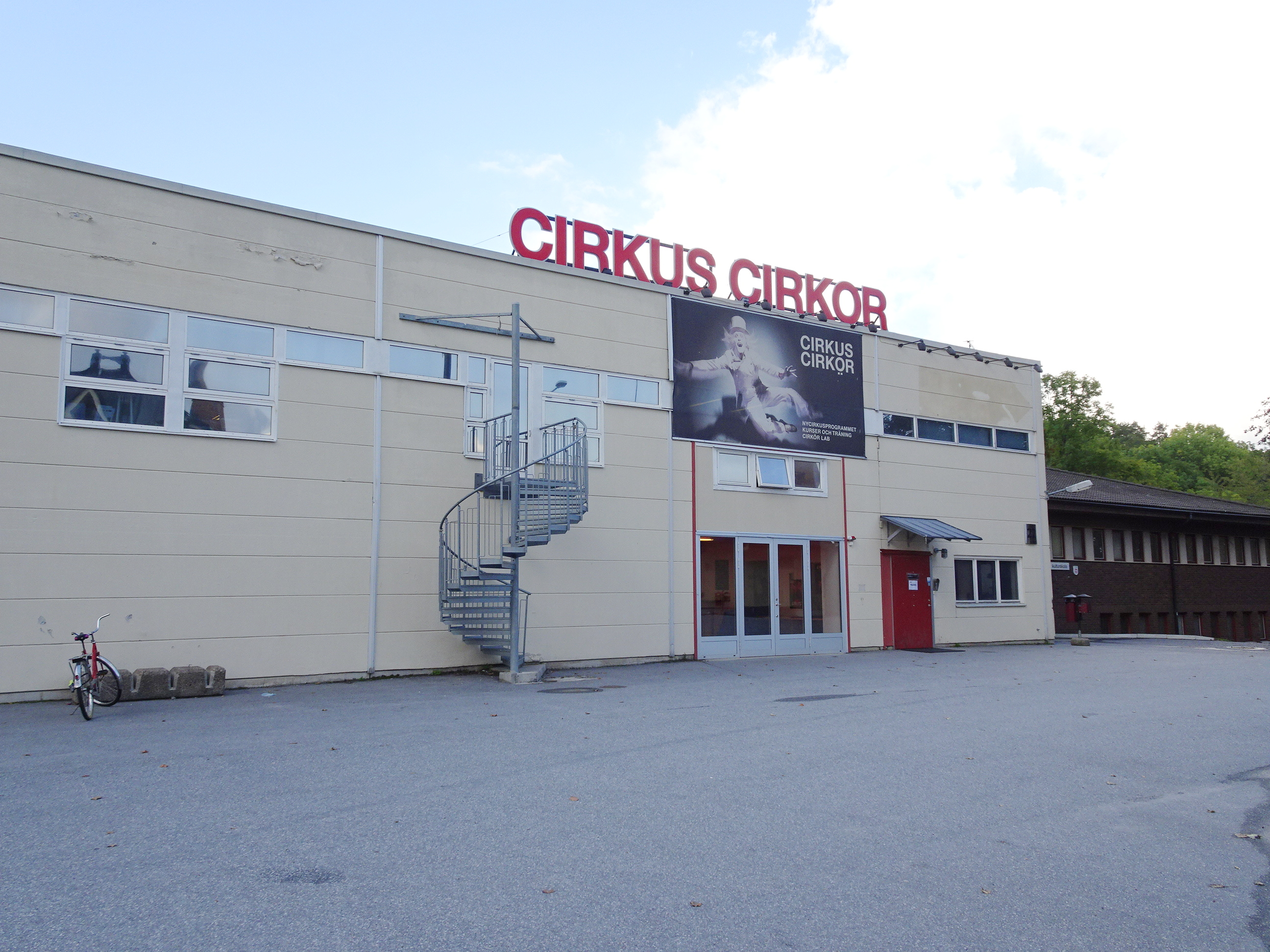 The circus hall of Cirkus Cirkör in Alby, Botkyrka kommun, Sweden